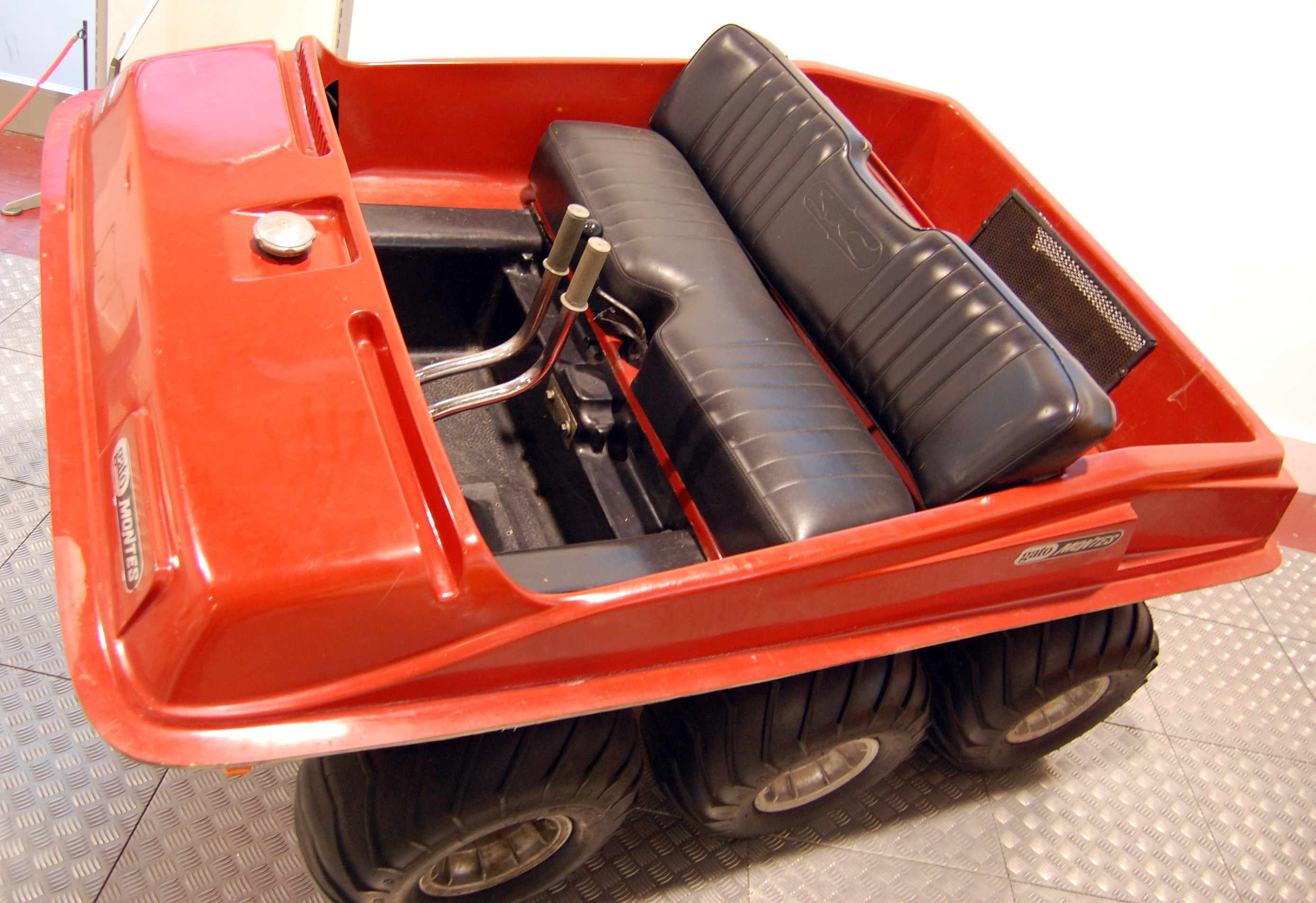 6x6 off-road amphibious Artés Gato Montés designed by José Artés de Arcos in Museo Historico del Automóvil de Salamanca